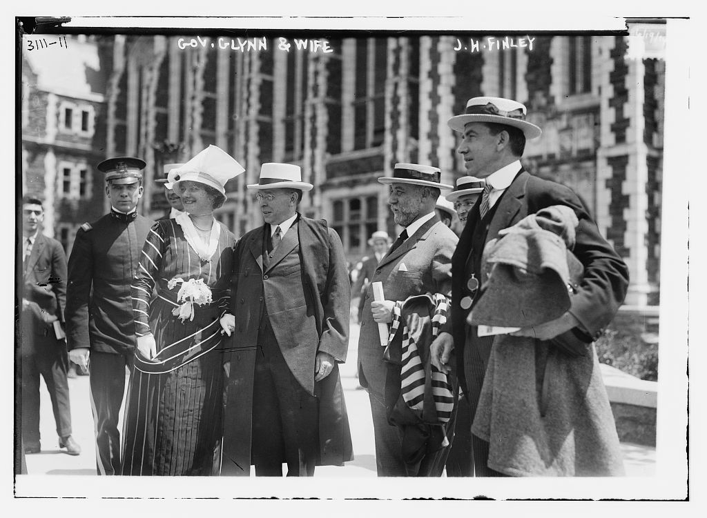 File:Finley 5579689890 36c40bd014 o.jpg Governor Glynn and wife, with J. H. Finley at City College of New York in 1913 Bain News Service,, publisher. Gov. Glynn and wife, J.H. Finley [between ca. 1910 and ca. 1915] 1 negative : glass ; 5 x 7 in. or smaller. Notes: Title from unverified data provided by the Bain News Service on the negatives or caption cards. Forms part of: George Grantham Bain Collection (Library of Congress). Format: Glass negatives. Repository: Library of Congress, Prints and Photographs Division, Washington, D.C. 20540 USA, General information about the Bain Collection is available at Persistent URL: Call Number: LC-B2- 3111-11